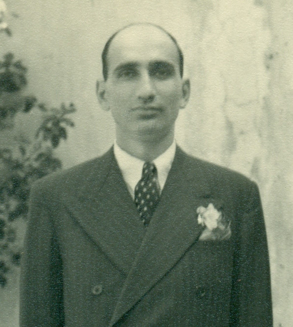 Bernard Jacob, last conductor of the Calcutta Symphony Orchestra. Cropped from Bernard & Philomena Jacob.jpg